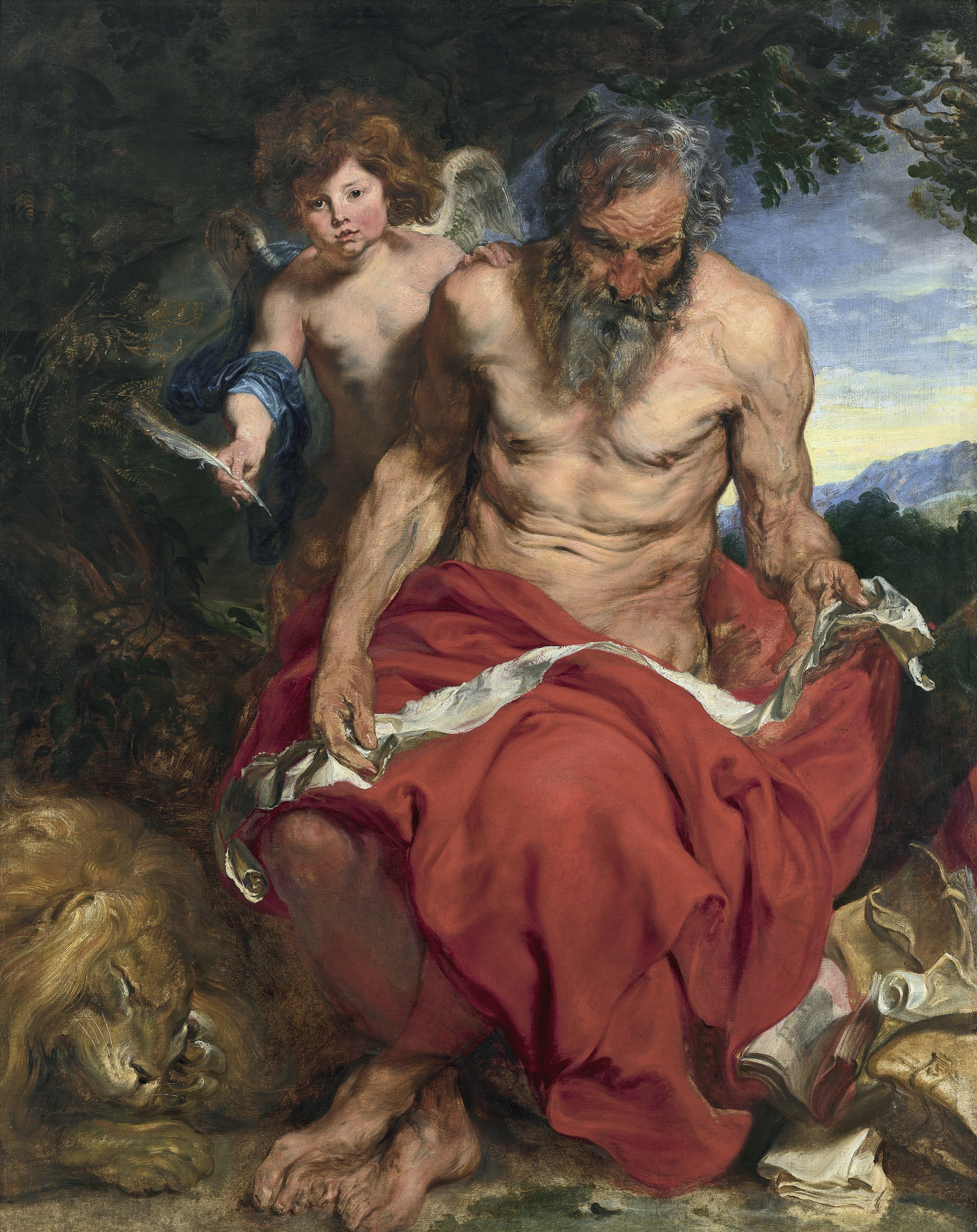 Saint Jerome meditating in the desert